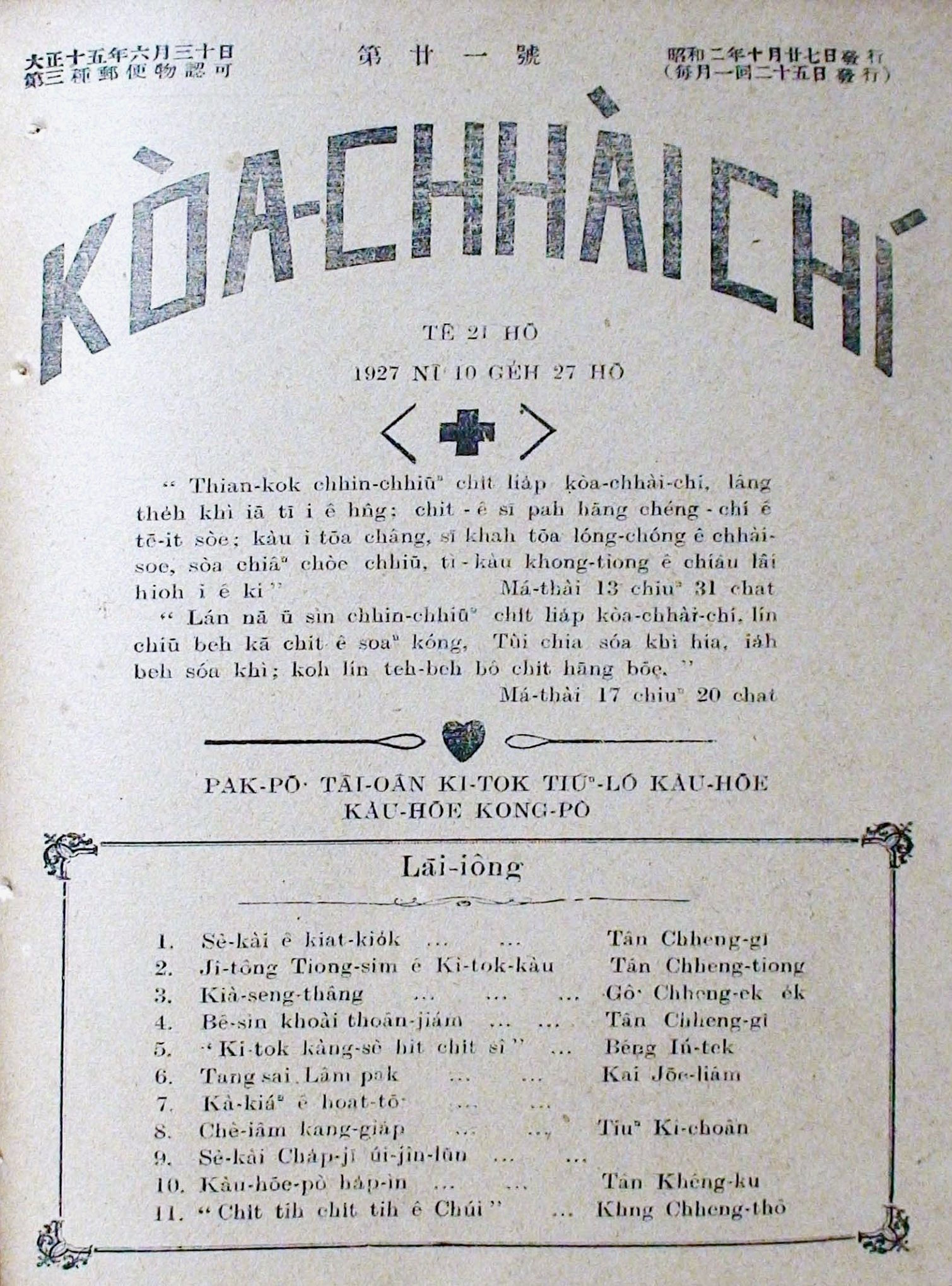 cover page of the 1927 Taiwanese magazine Kòa-chhài chí.